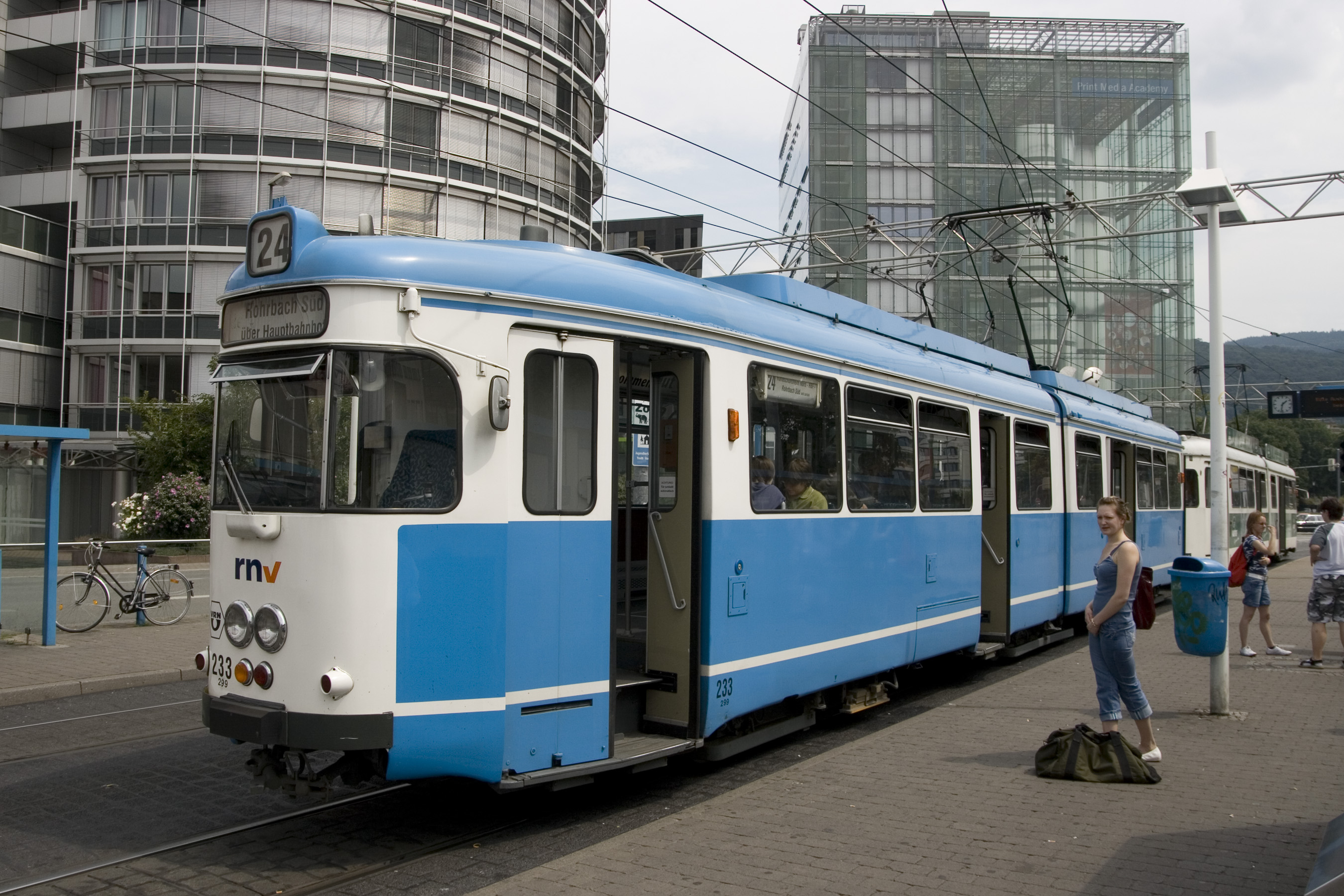 Tram in Heidelberg